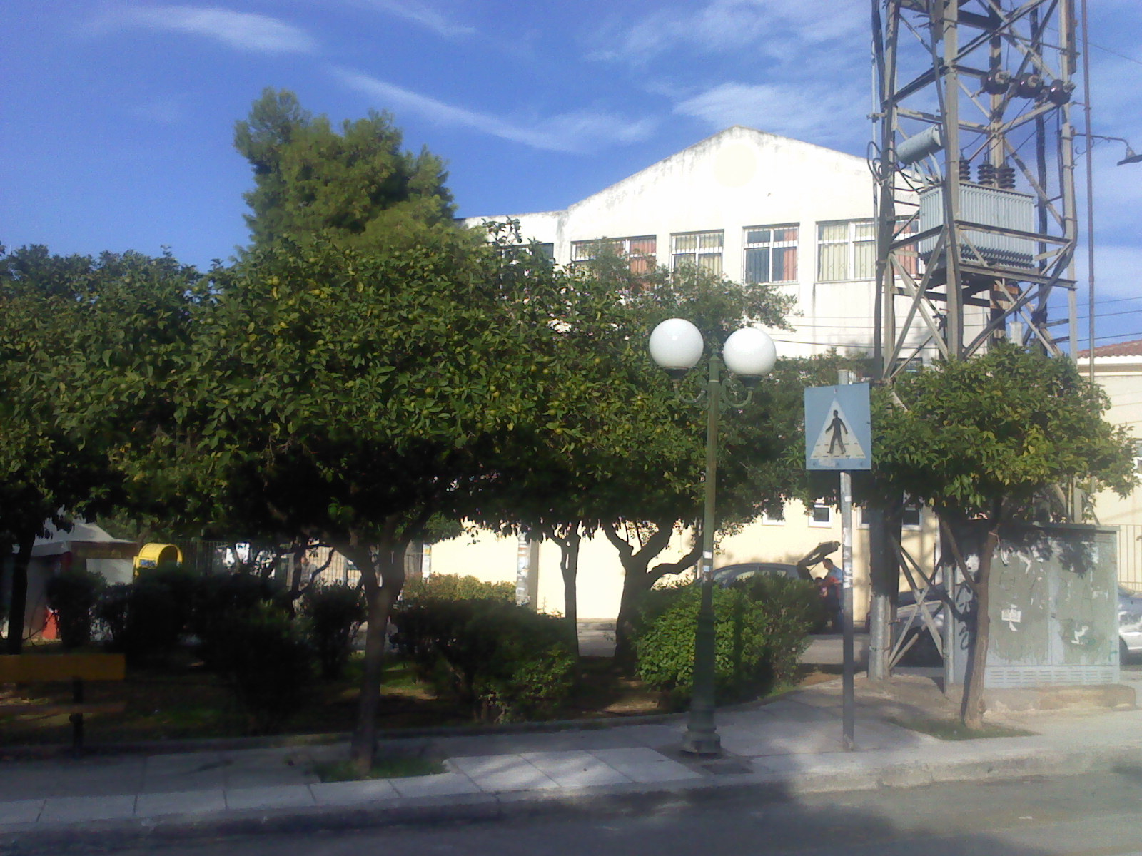 Square Tianeon Nea Ionia